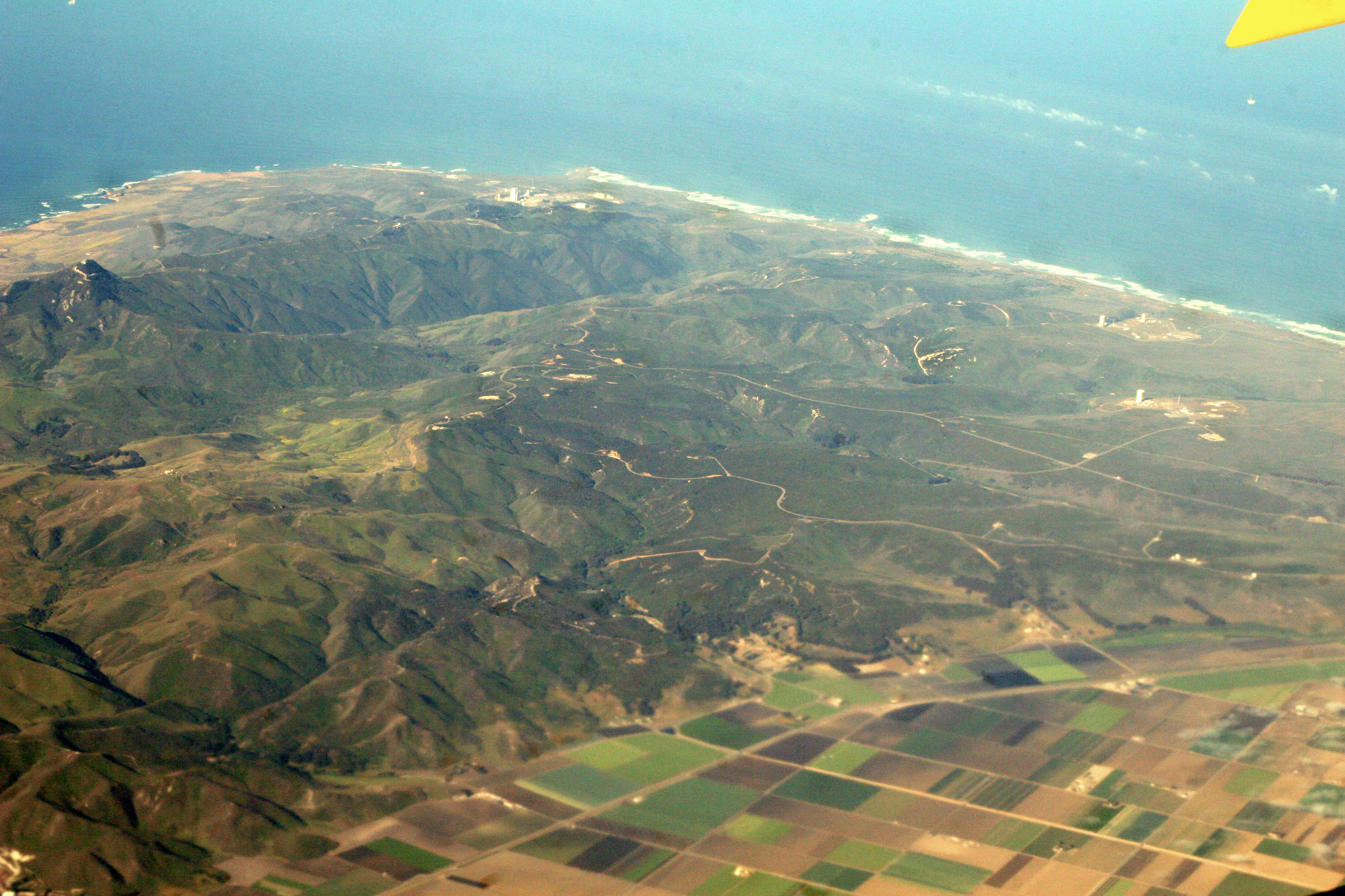 At the far side, Point Arguello and the northwestern Santa Ynez Mountains within Vandenberg Air Force Base (upper left), and fields of the Lompoc Valley (lower right) — in Santa Barbara County, Southern California.